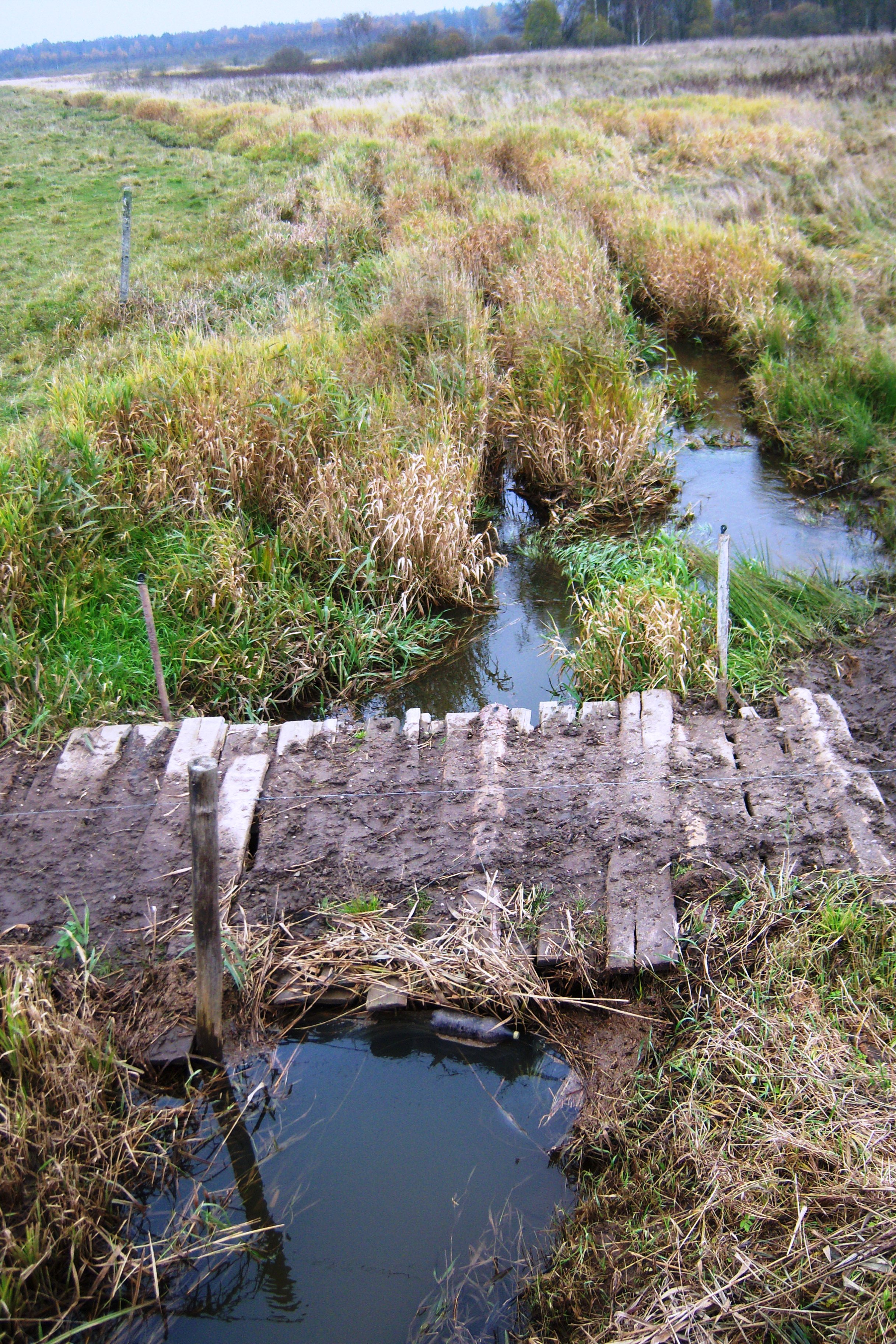 Juodė River near Telšiai, road KK161, Lithuania